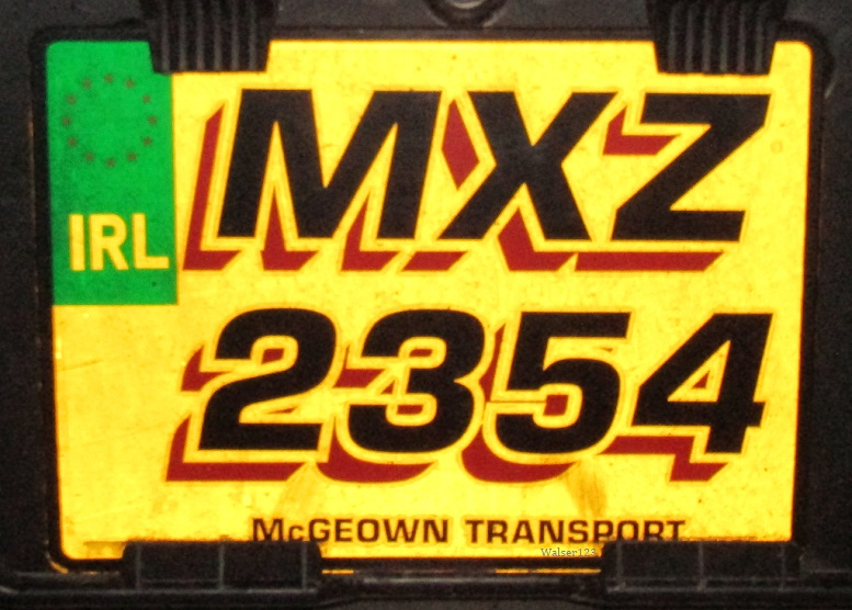 Northern Ireland trailer plate (non-standard), XZ = Armagh County